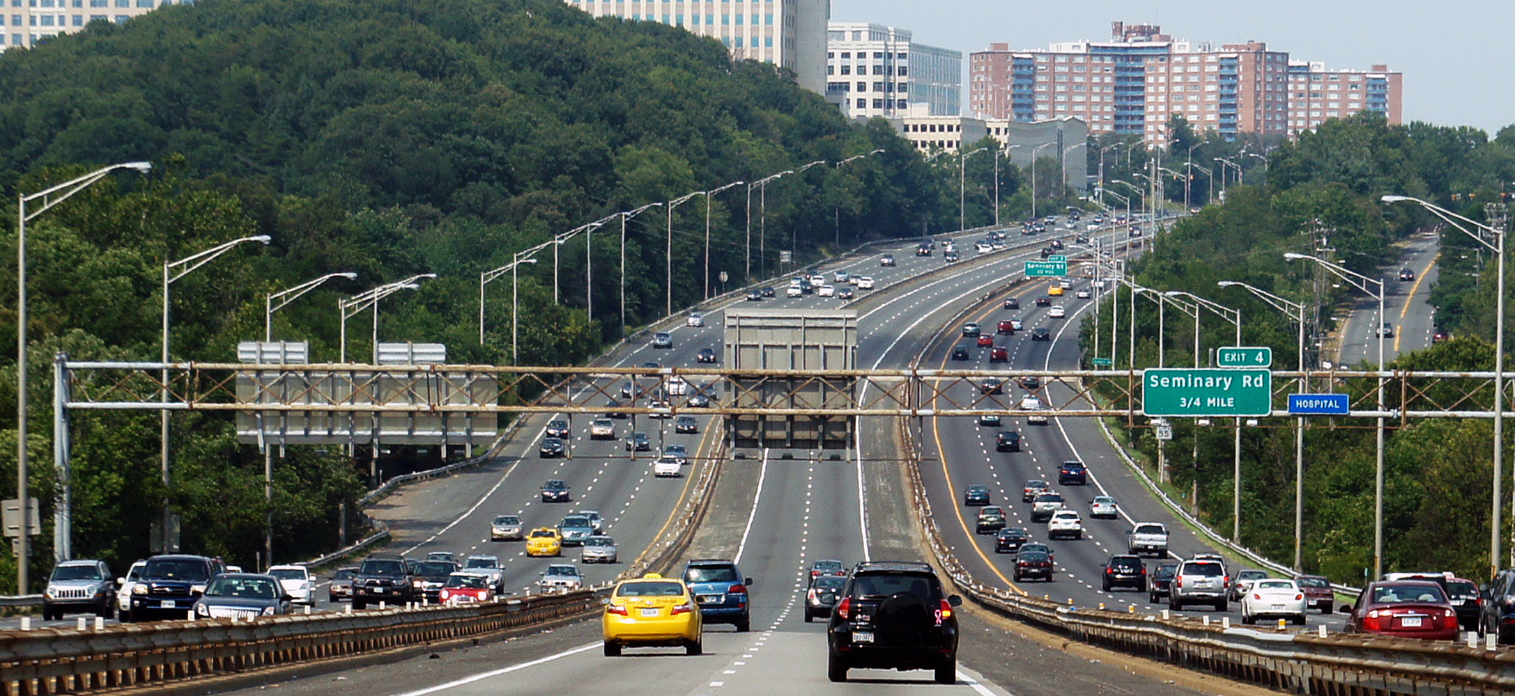 Interstate 95/395 reversible HOV lanes (located in the middle of the freeway). Virginia, US.